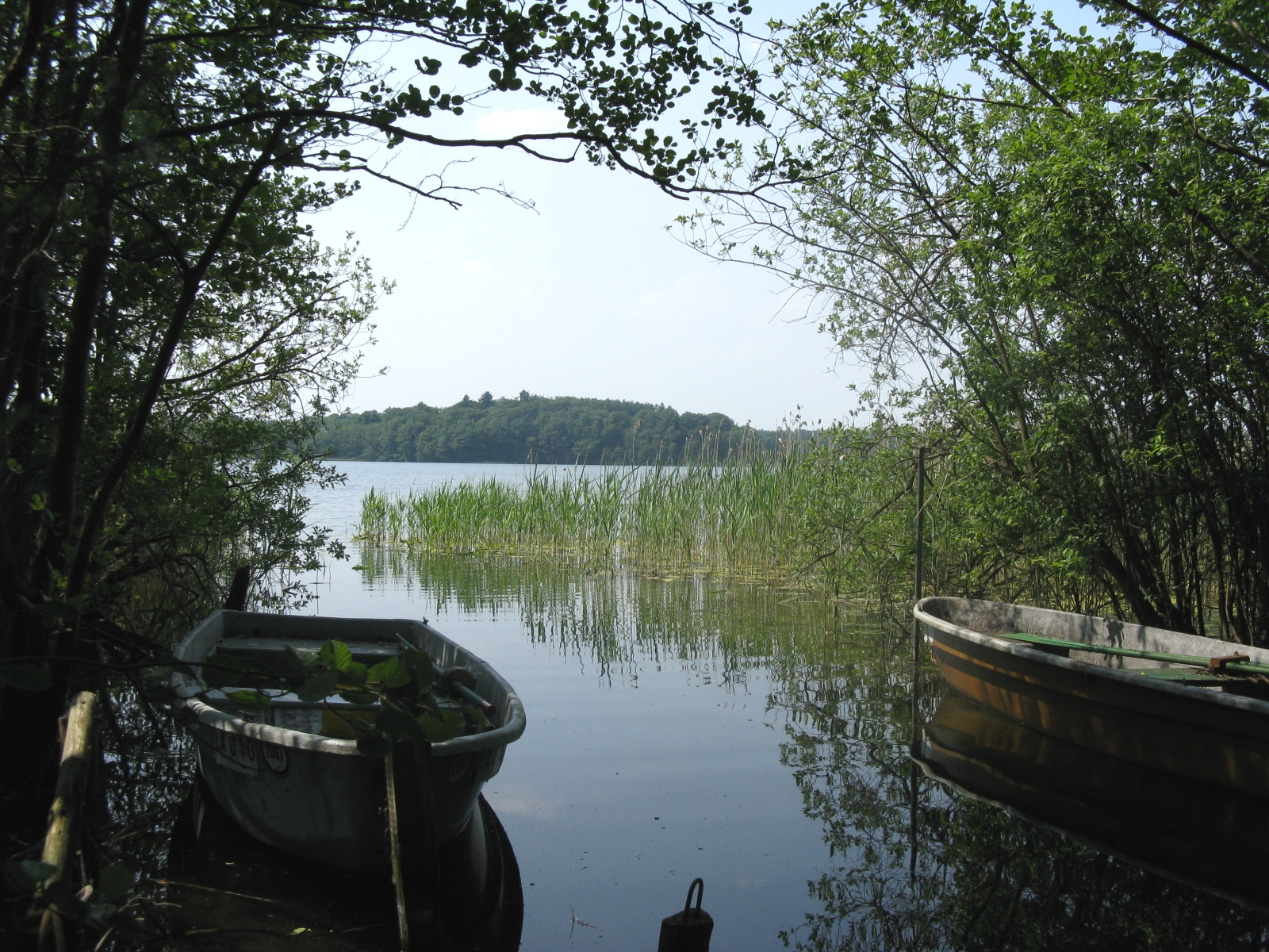 Schaalsee in Lassahn, district Ludwigslust-Parchim, Mecklenburg-Vorpommern, Germany